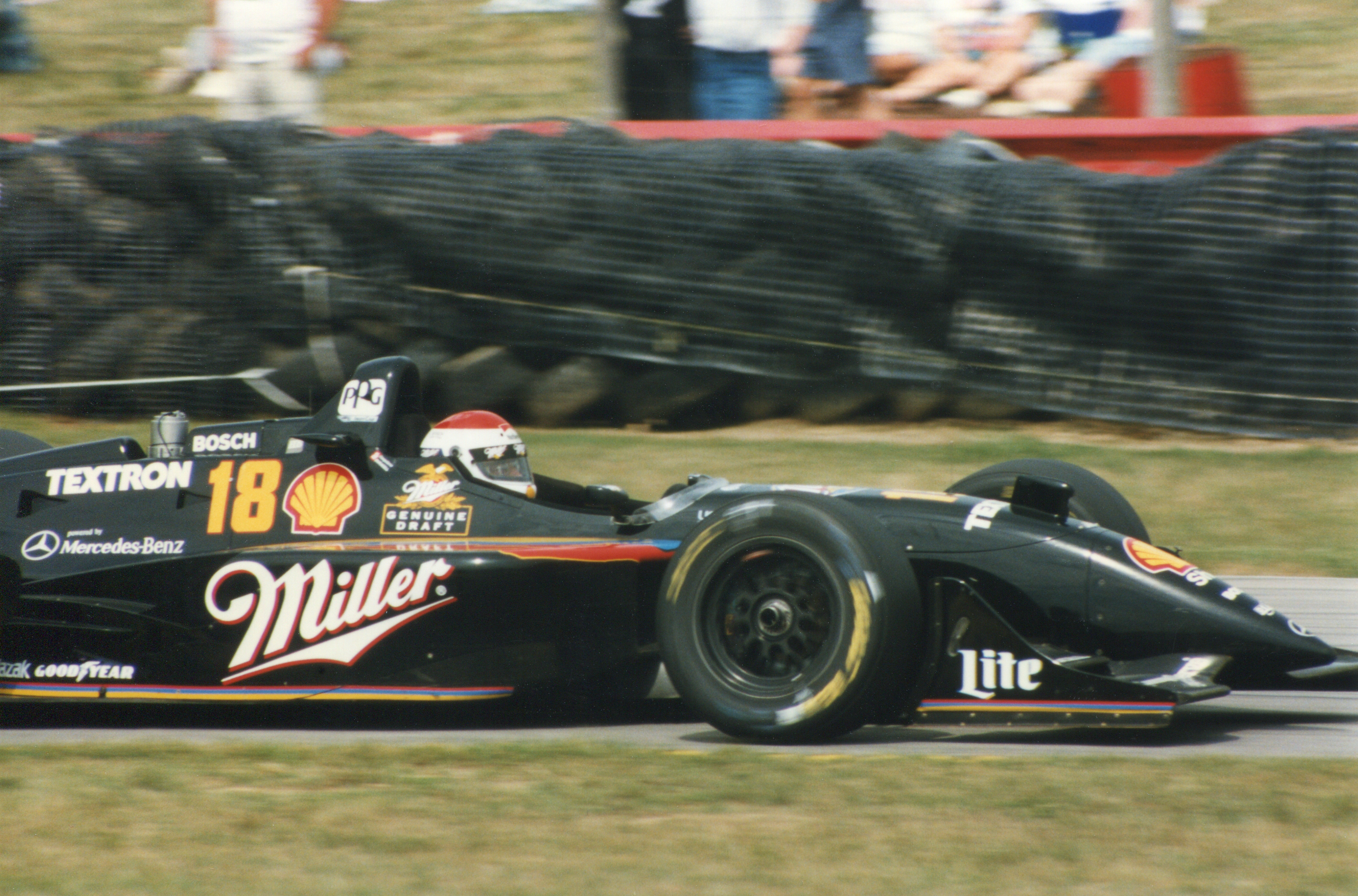 Bobby Rahal driving for Team Rahal in practice for the Miller 200 at Mid-Ohio Sports Car Course in Lexington, Ohio on August 10, 1996